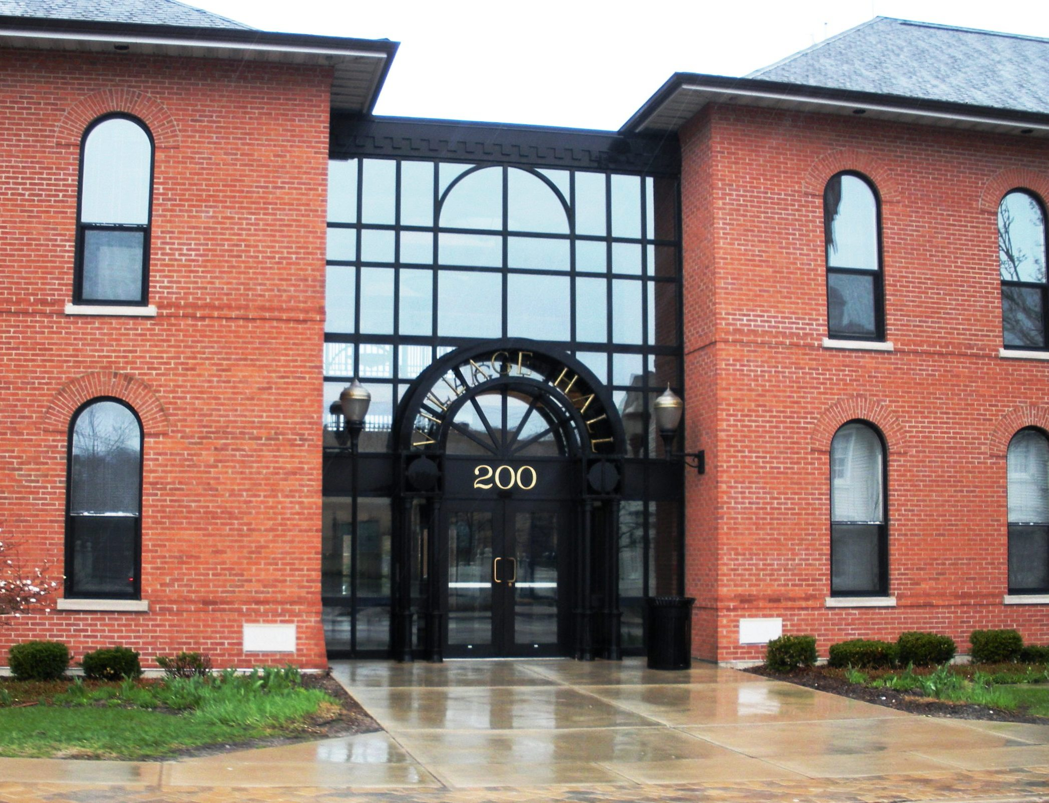 Photograph of village hall in Barrington, Illinois. Brick building with glass entrance.